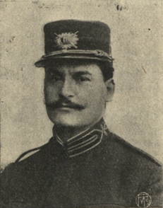 Republican member of the Portuguese 1911 Constituent Assembly.